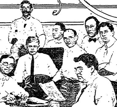 Charles S. Burnell, assistant Los Angeles city attorney, center, with glasses and looking at the camera, is surrounded by other lawyers as they took some time for a photo while working on the Silver Lake Park condemnation suit in 1913. Other information This is only a portion of the original photograph.